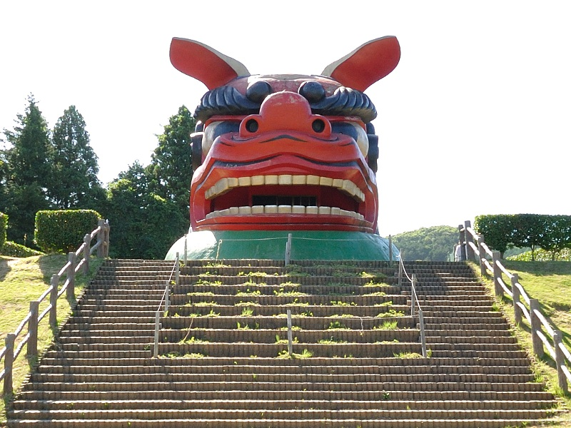 Hitachi Fudokinooka Lion Head Observatory Building